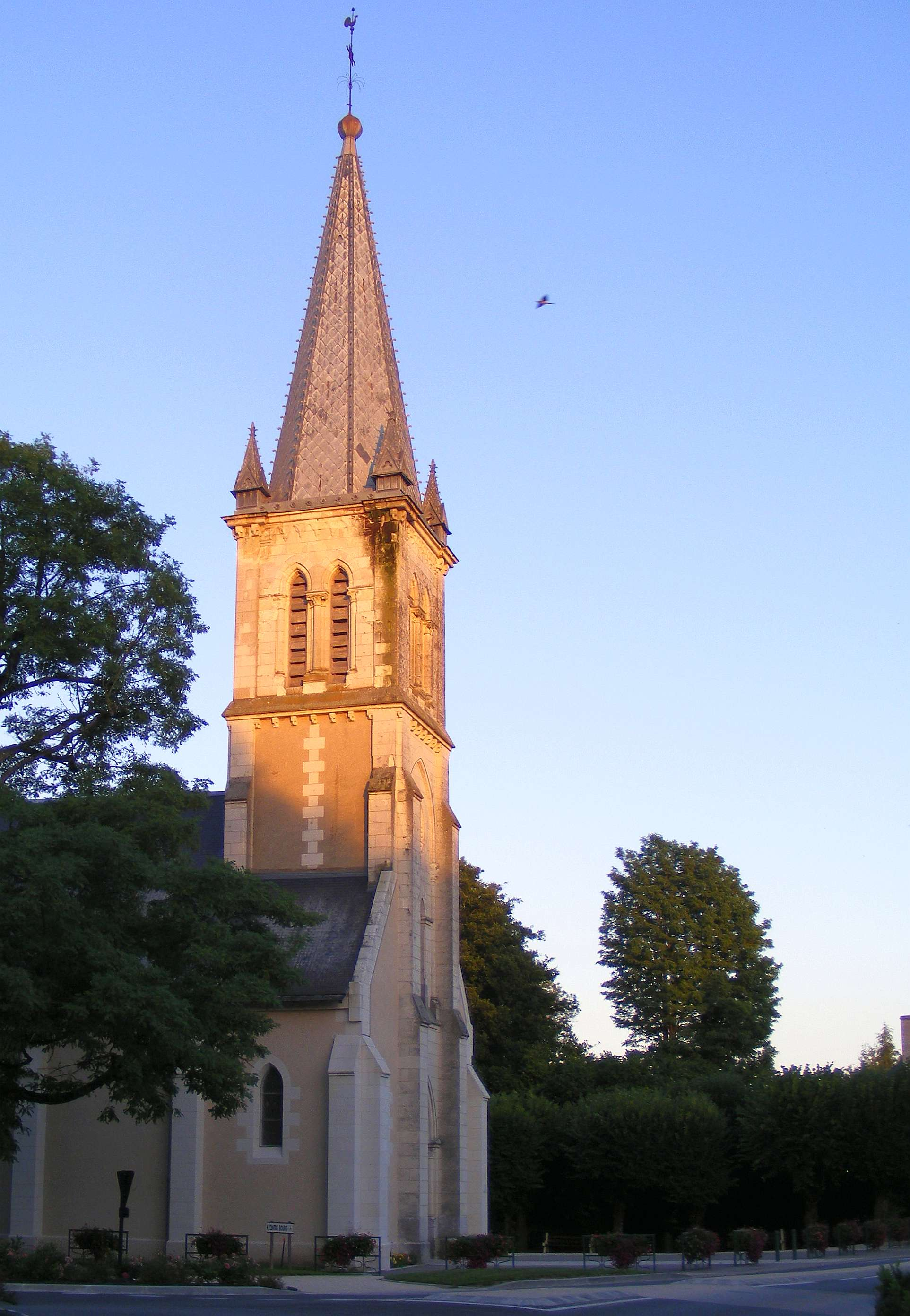 Bracieux: bell tower